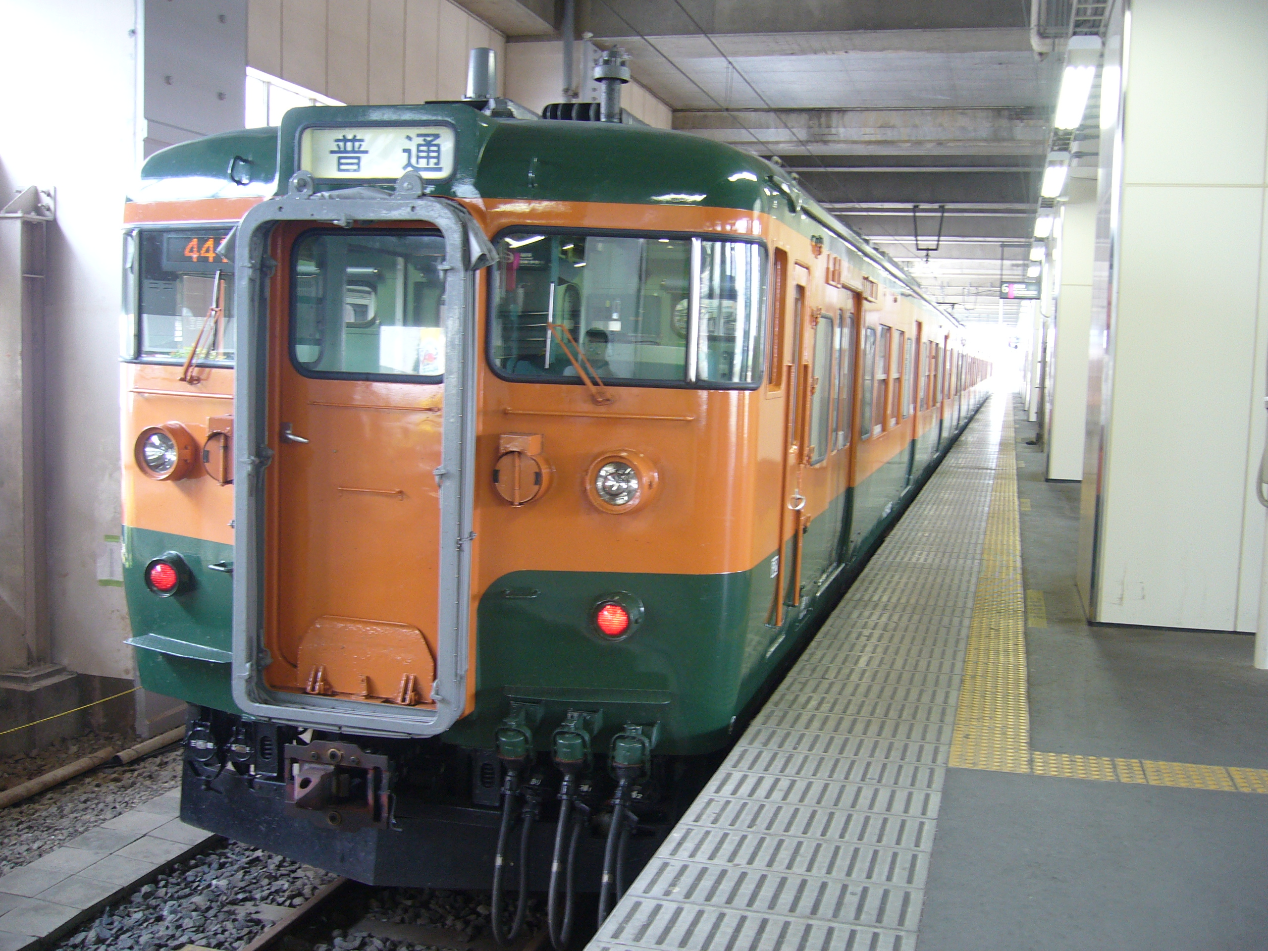 115 series Ryomo Line train at Oyama Station